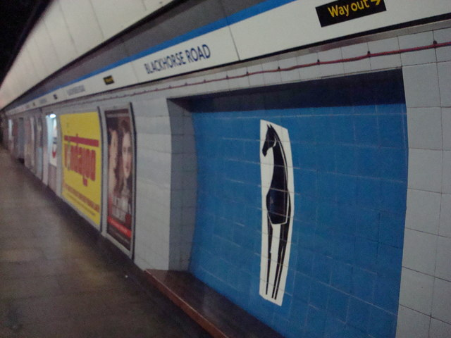 Tile design at Blackhorse Road underground station